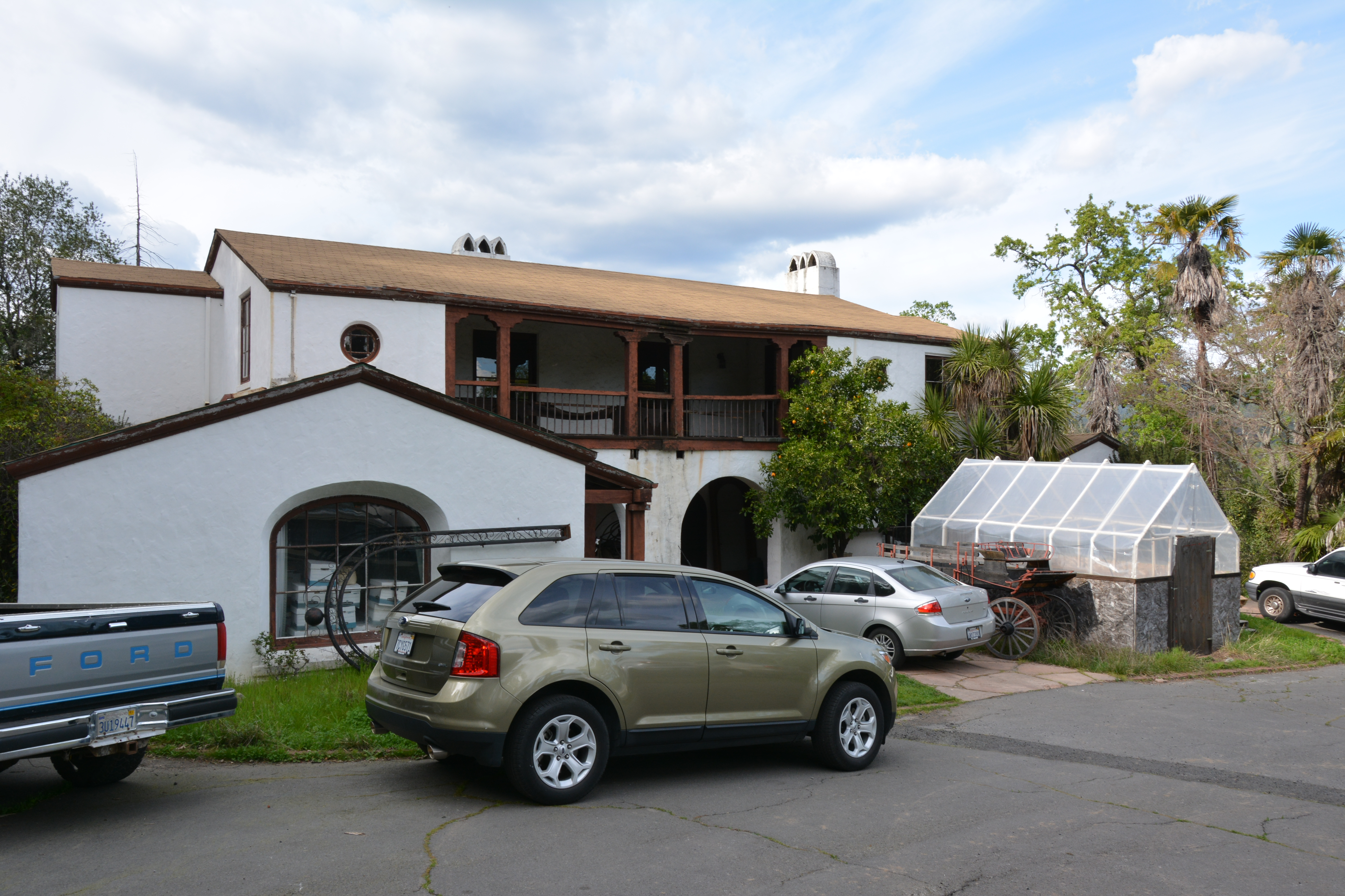 The Culinary Institute of America at Greystone in 2015.